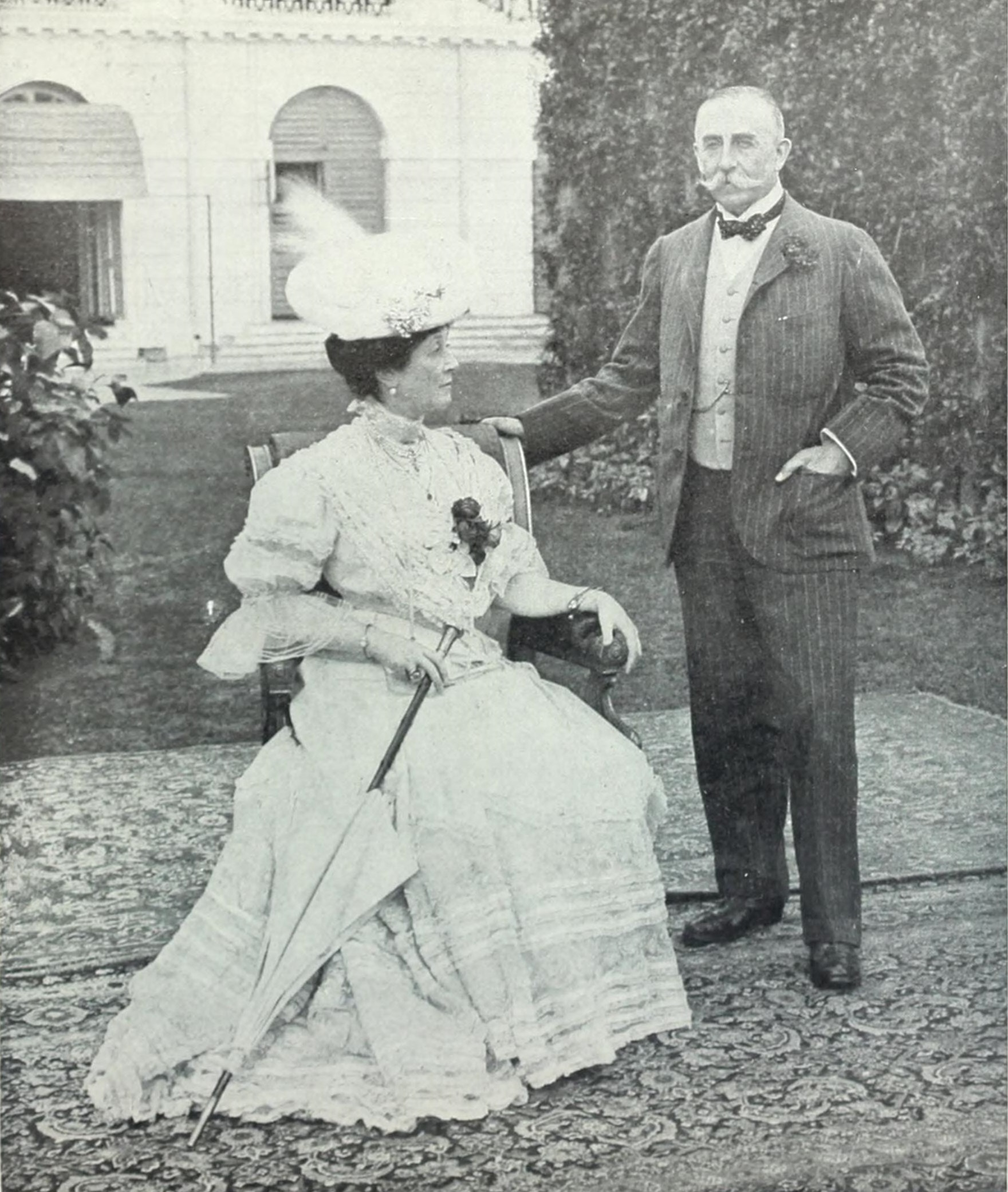 "The Viceroy of India, the Earl of Minto with Lady Minto."